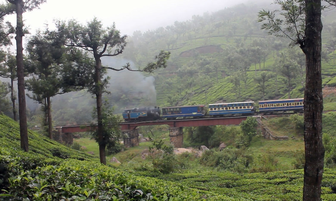 a still from the documentary made by me